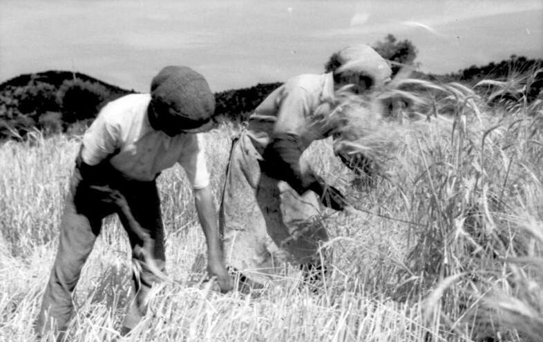 Information added by Wikimedia users.